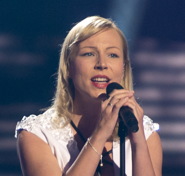 ManuElla representing Slovenia with the song "Blue And Red" during a rehearsal before the second semi final of the Eurovision Song Contest 2016 in Stockholm. (Help translate this text)